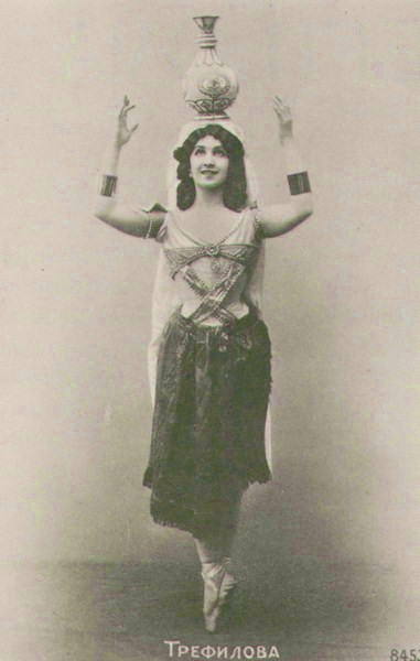 Original Description is here